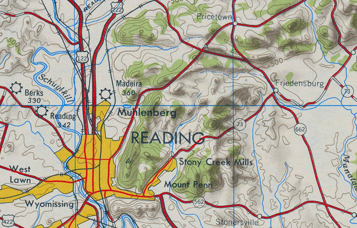 A 1947 topographic map of the Reading, Pennsylvania area.